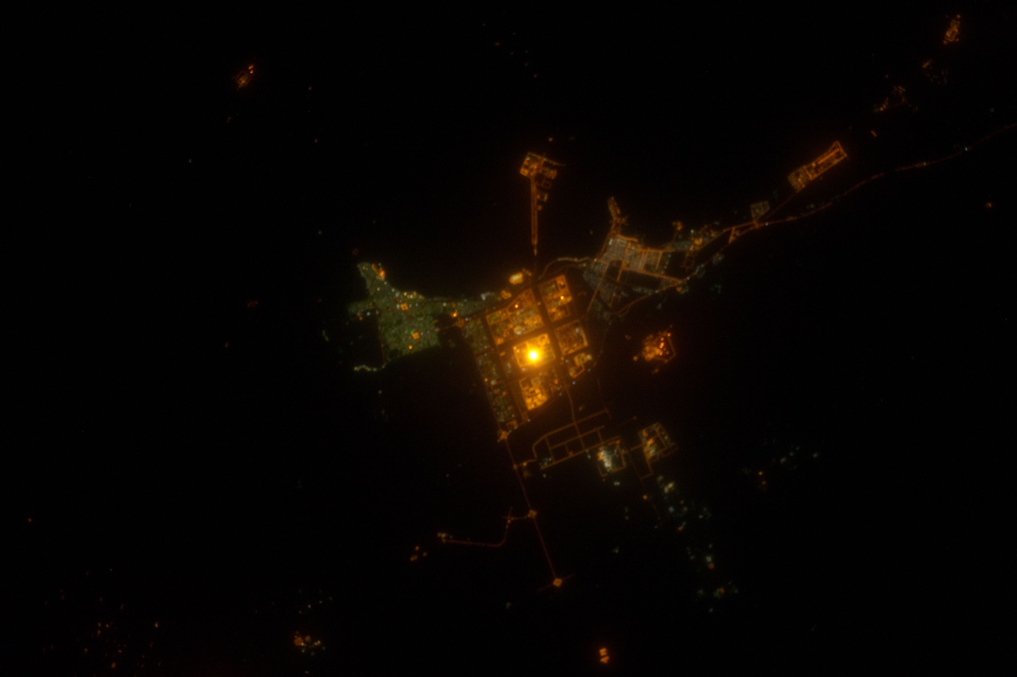 Al Jubayl, Saudi Arabia at night is featured in this image photographed by an Expedition 31 crew member on the International Space Station. The city of Al Jubayl (or Jubail) is located on the Saudi Arabian coastline of the Persian Gulf. The city has a history extending back more than 7,000 years, but since 1975 it has been associated with the heavy industries of petrochemical refining and production, fertilizer production and steel works. At night, these industrial areas form a brightly lit region (center) to the south of the residential and commercial center of Al Jubayl (characterized by green-gray lighting). An artificial peninsula extending into the Persian Gulf to the northeast hosts supertanker docks and petroleum storage facilities. The Persian Gulf to the north and northeast is devoid of lights; likewise, the open desert to the south-southeast provides a stark contrast to the well-lit urban and industrial areas. A bright circle of light located within the heavy industrial area (center) cannot be resolved in this photograph, but is likely a concentration of lights associated with ongoing processing or construction activities. The approximate scale of the feature – hundreds of meters in diameter – is consistent with multiple stationary light sources, particularly if the light from those sources is accentuated due to the camera's low light settings.